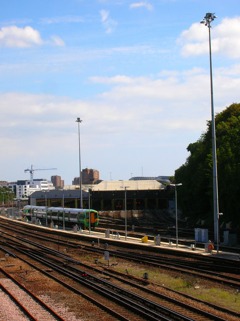 Lovers Walk Depot Train sheds recently refurbished to deal with the new units introduced by Southern. The mainline is in the foreground whilst the roof of Brighton Station is behind the depot.